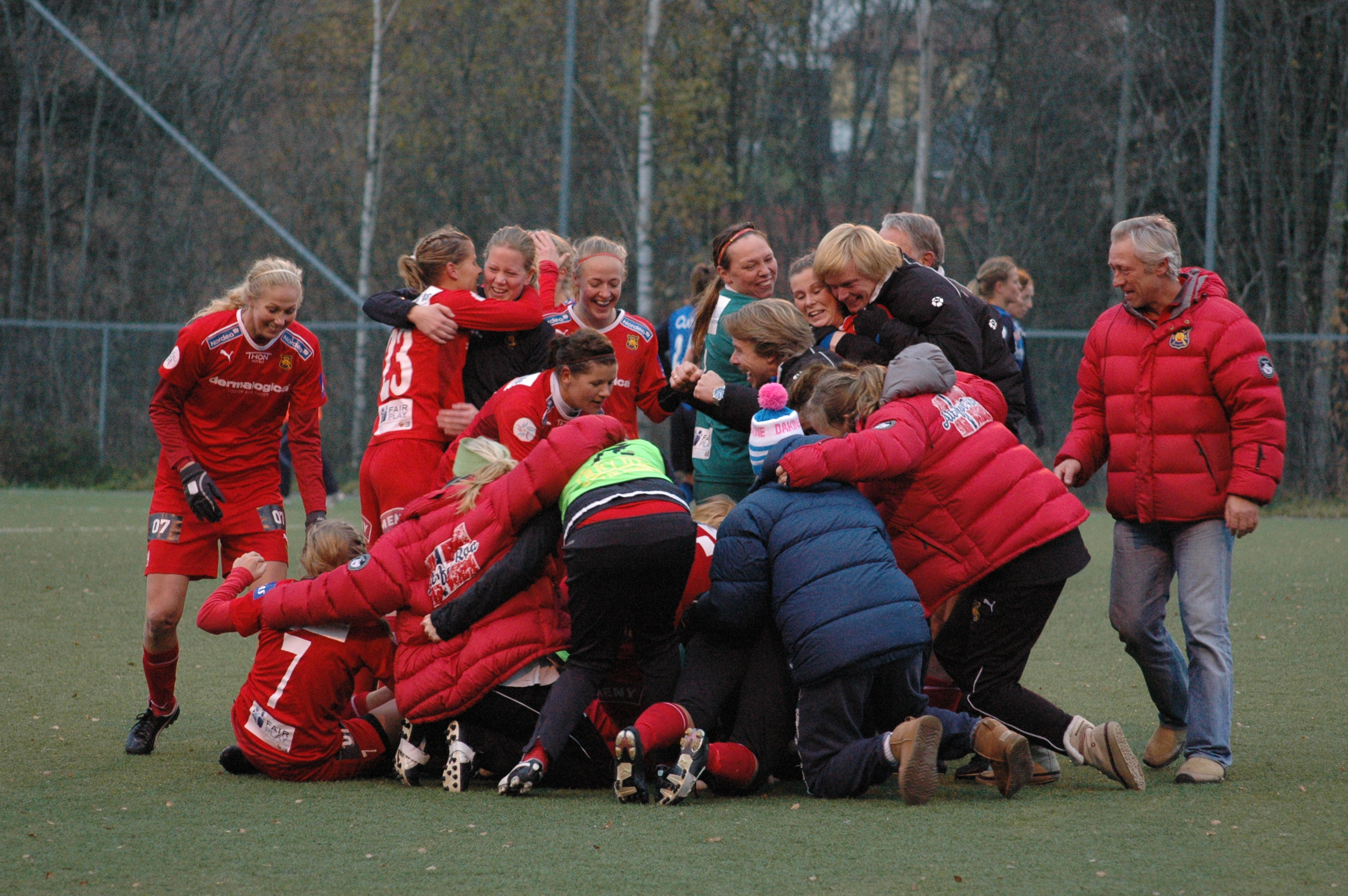 This picture is taken a couple of seconds after the Røa players realized that they just won Toppserien 2009.